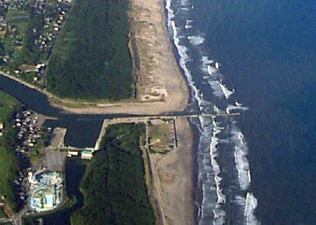 Kujyūkuri-Beach taken from UNITED's airplane from Narita to San Francisco, flying over Sanmu city ,which is located on the east coast of the Bōsō Peninsula in Chiba prefecture, Japan. We can see Kuriyama river and Kuriyamagawa port.